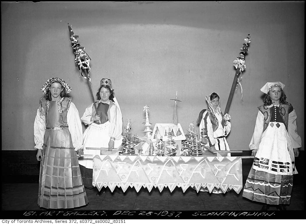 Photographer: Arthur Goss December 28, 1937 City of Toronto Archives Series 372, Subseries 2, Item 151